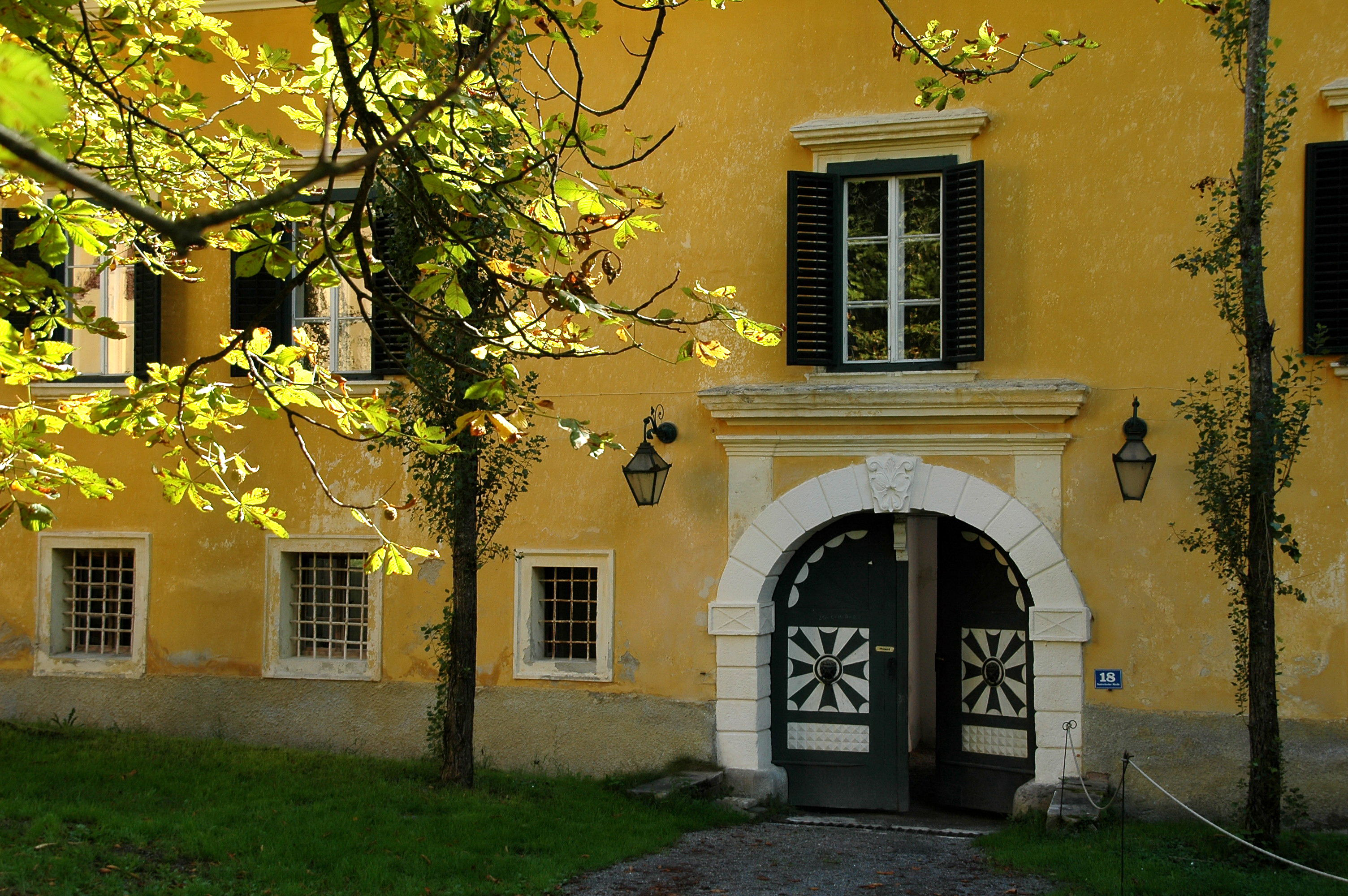 Portal of castle Damtschach on Damtschacher Strasse #18, municipality Wernberg, district Villach Land, Carinthia, Austria, EU